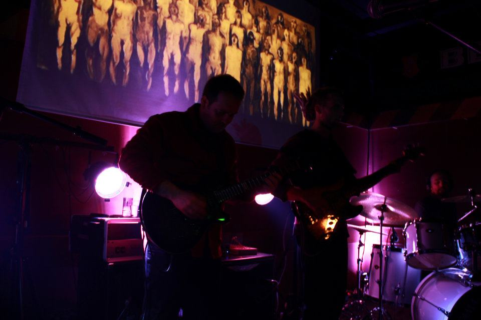 Snovi in concert (Rock club Uljanik)